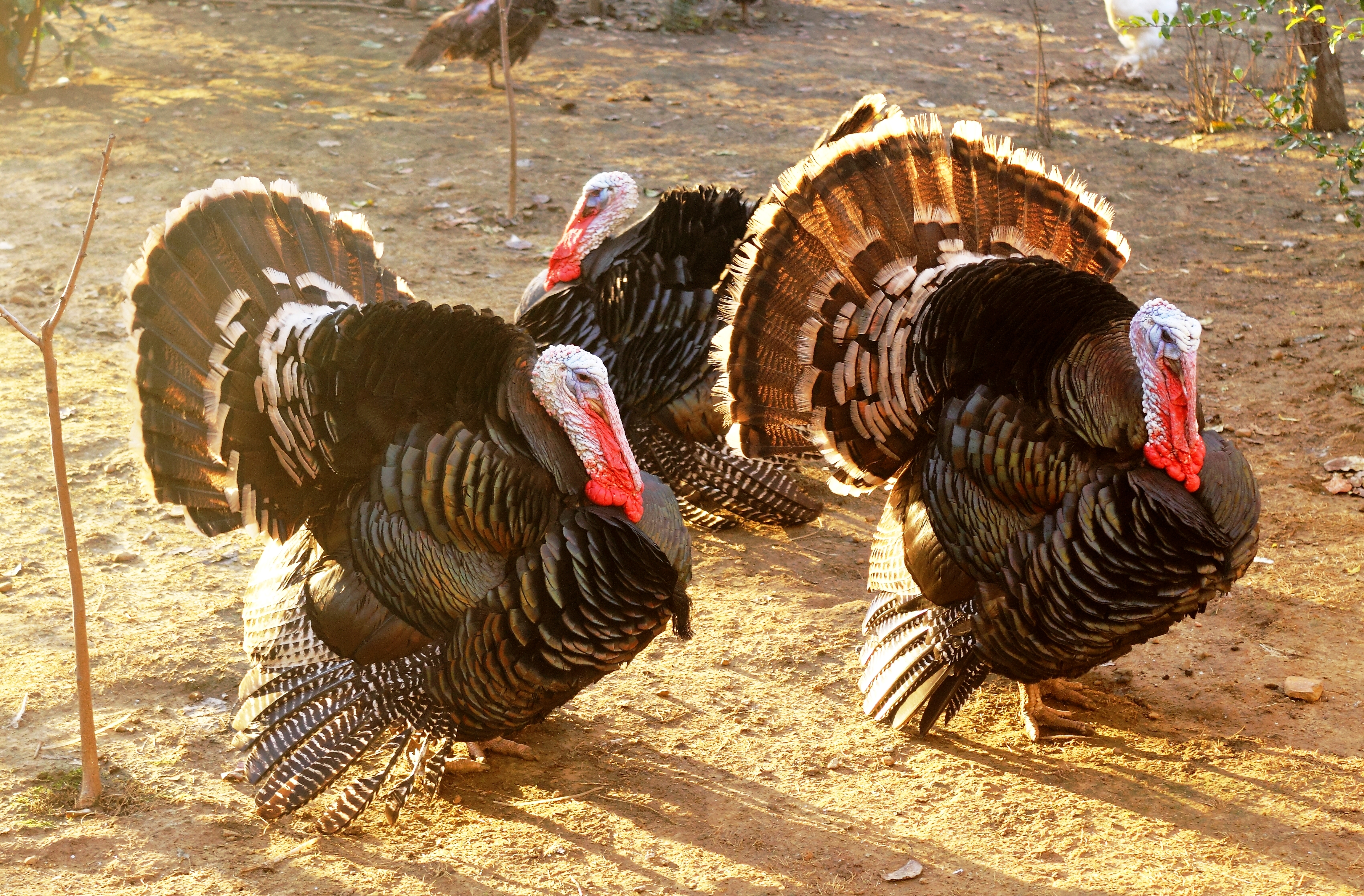 Domestic turkeys. The picture taken in the village of Vardane-Verino of Adlersky District of Sochi. Krasnodar Krai, Russian Federation.